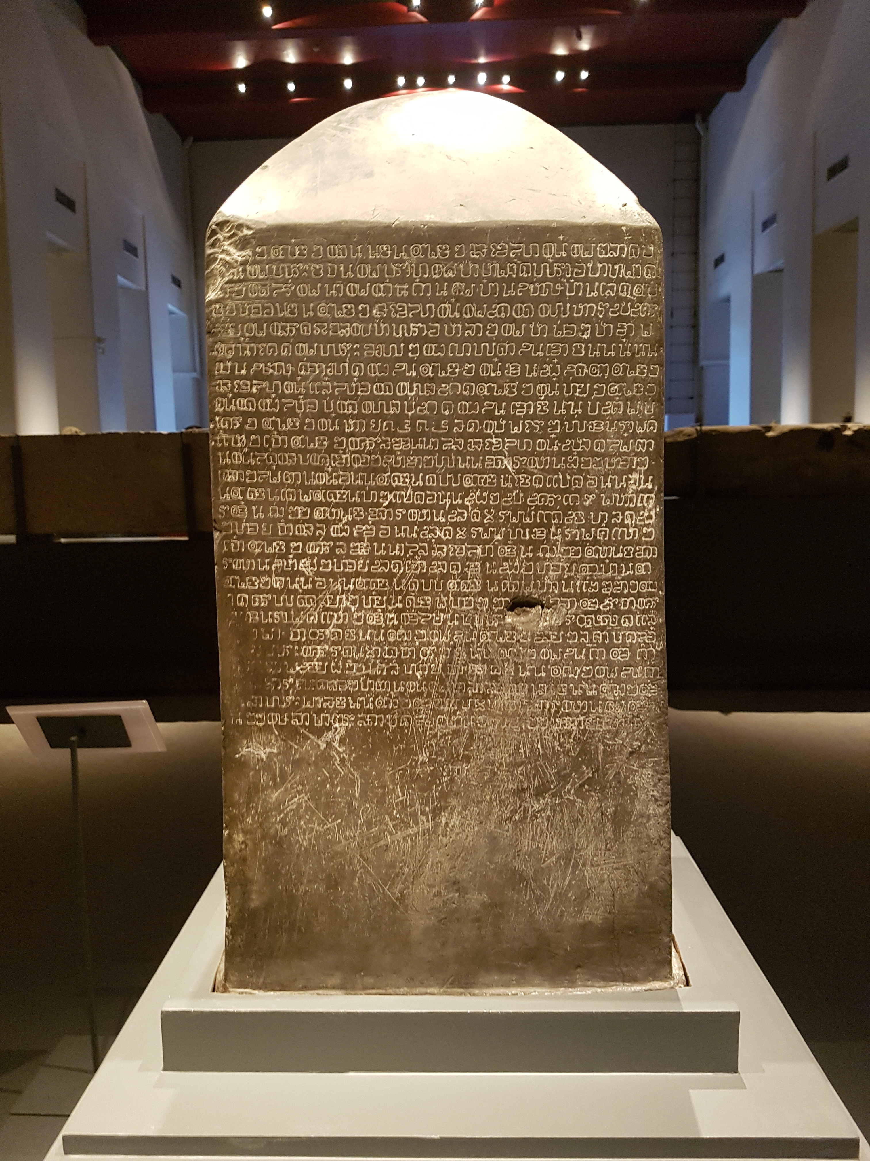 Place: Siwamok Phiman Hall, Bangkok National Museum, Bangkok, Thailand. Item: Inscription 1 (จารึกหลักที่ ๑) or Ram Khamhaeng Inscription (จารึกพ่อขุนรามคำแหง), allegedly created in 1835 BE (1292/93 CE).